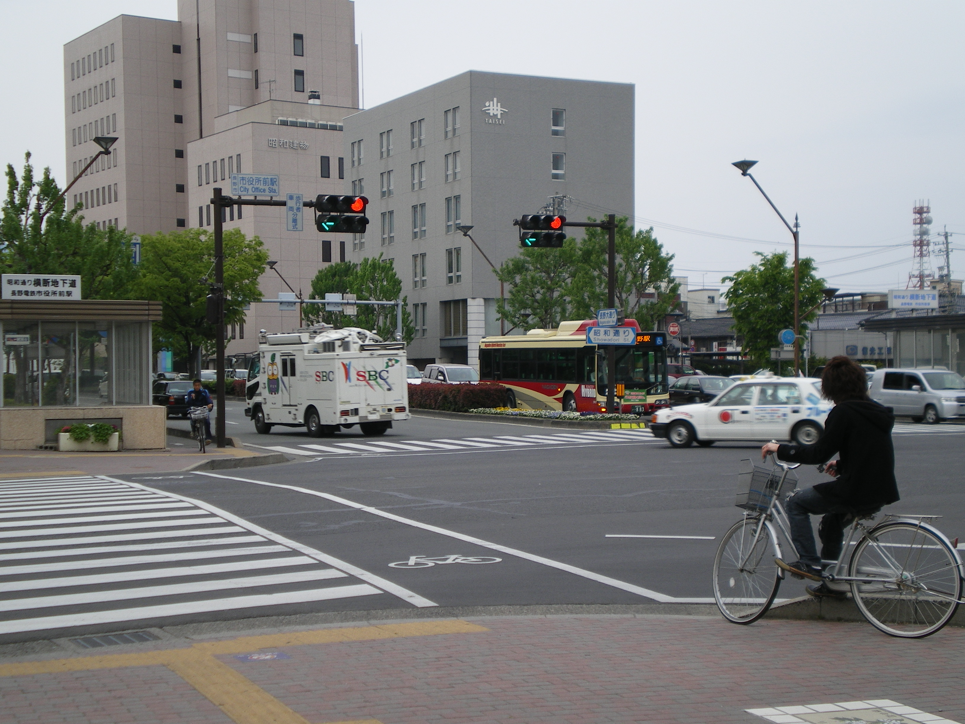 Shiyakusho-mae Station Crossing, Nagano, Japan